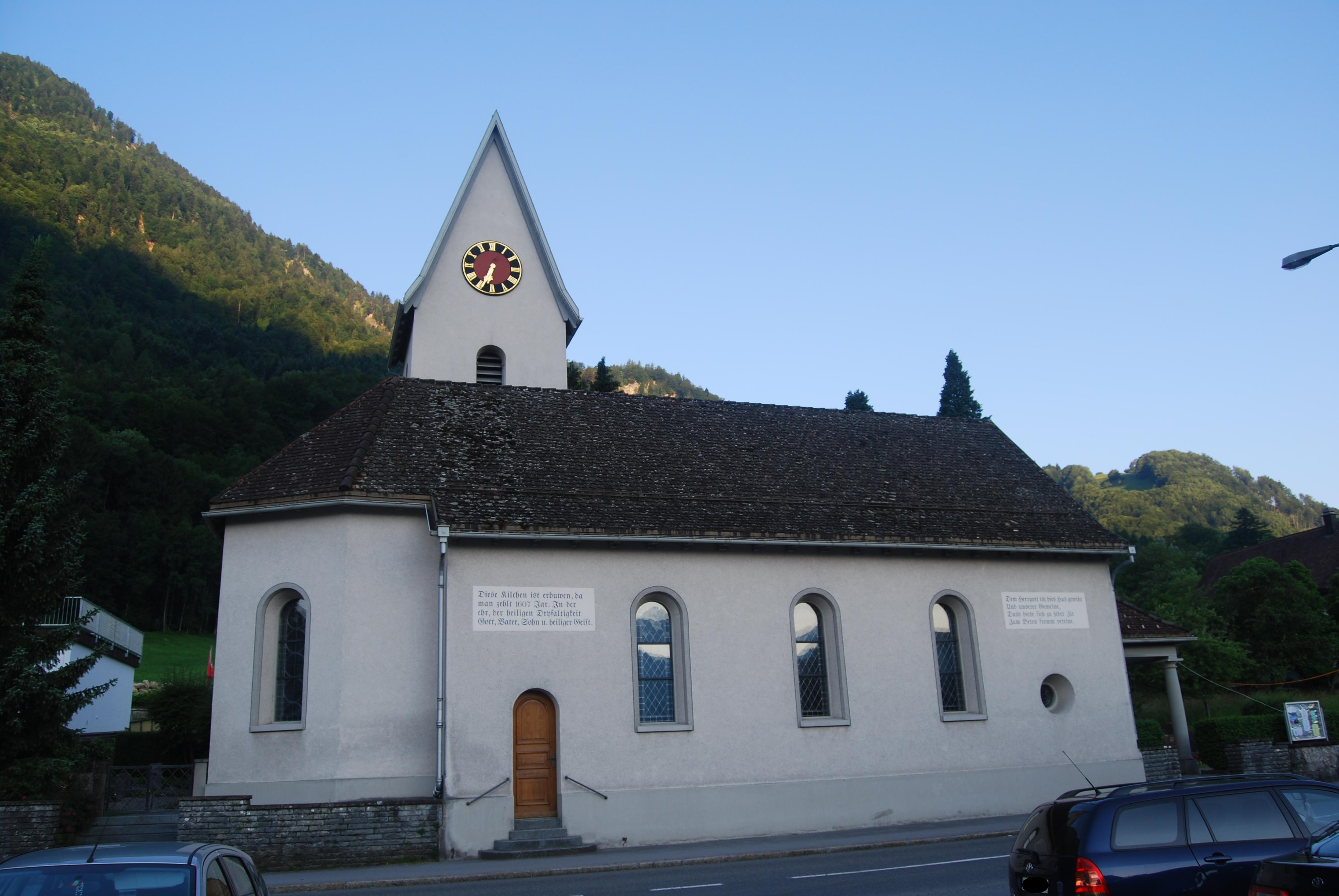 Church of Bilten, canton of Glarus, SwitzerlandEsperanto: Preĝejo de Bilten, Kantono Glaruso, Svislando